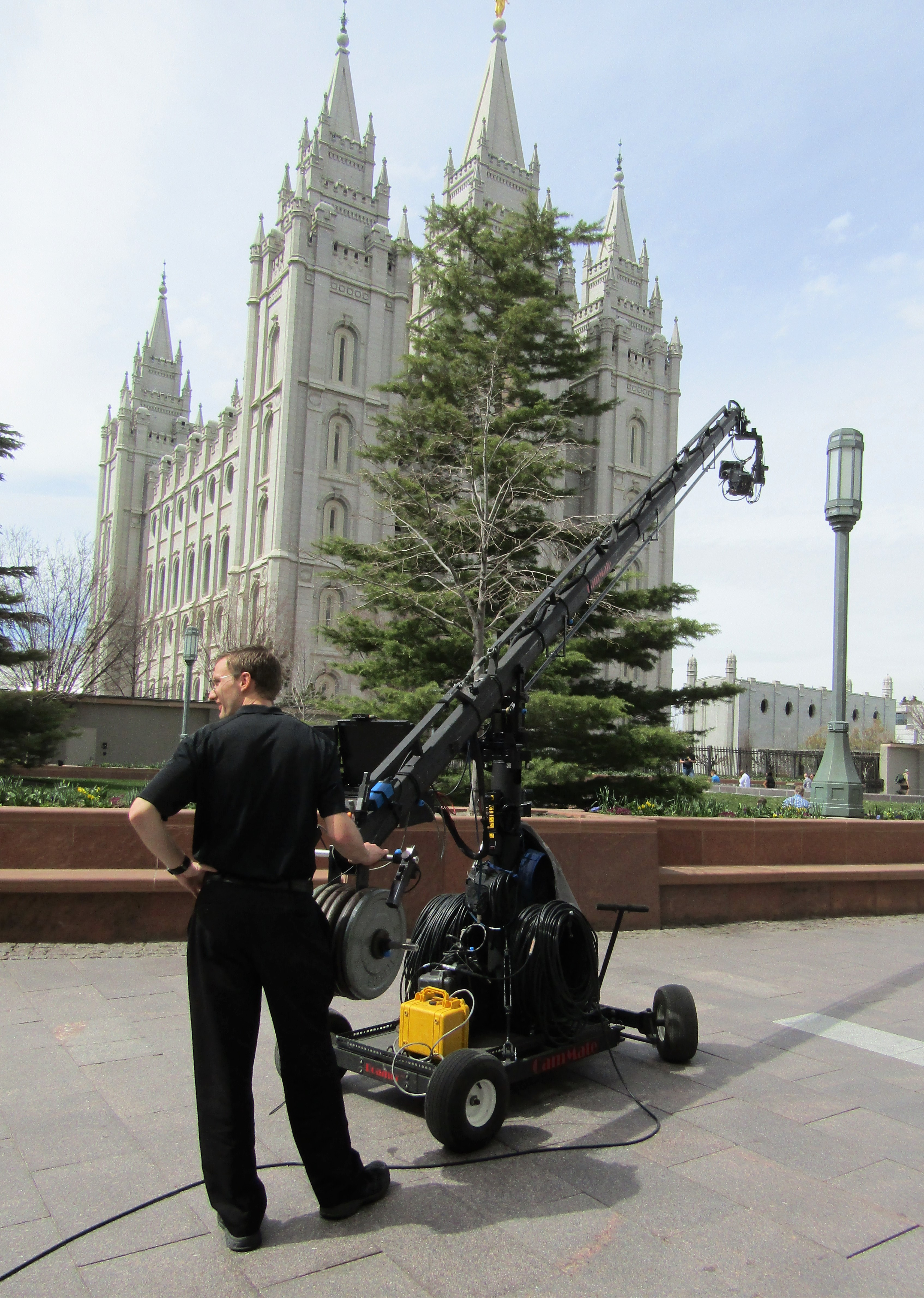 A cameraman waits on Temple Square to broadcast footage for the international broadcast of General Conference.